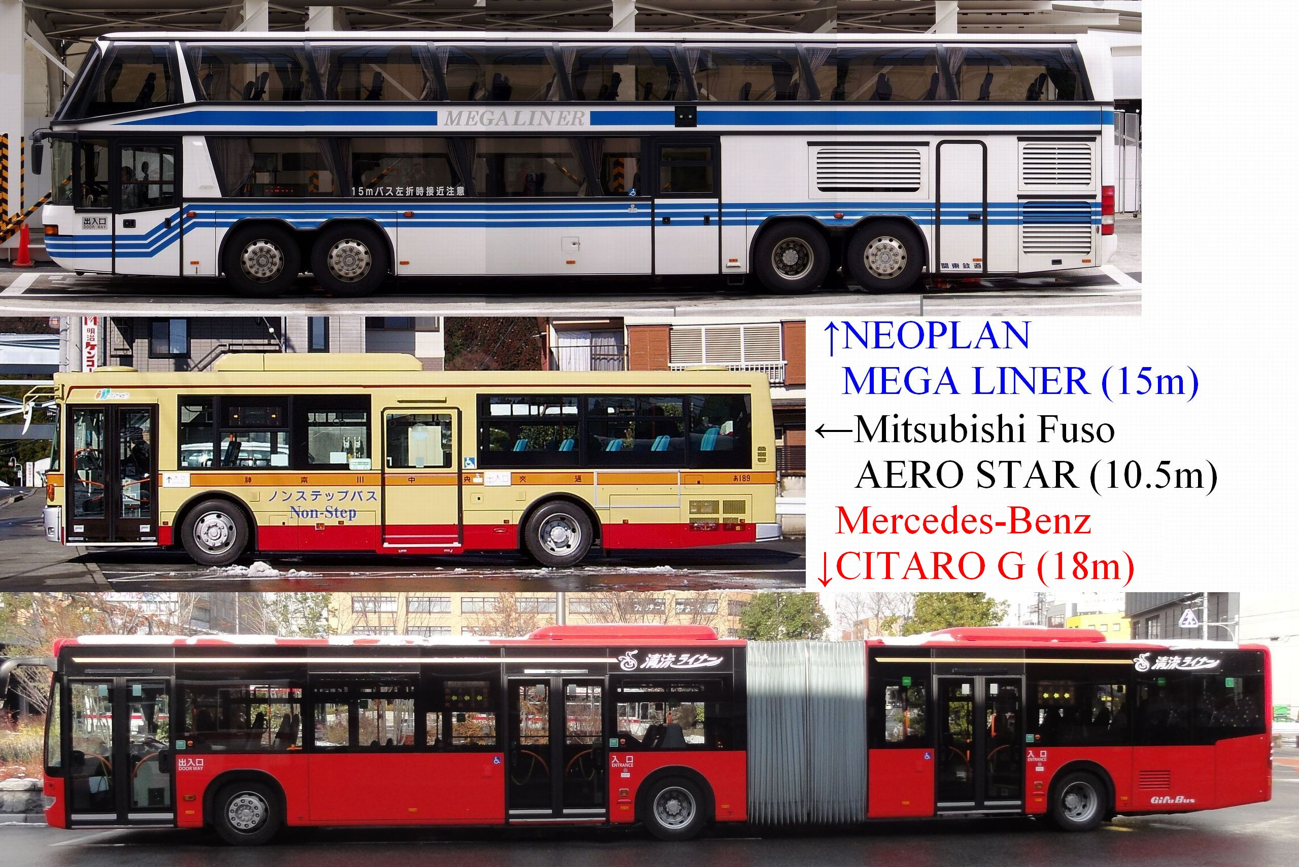 Comparison of omnibus and MegaLiner and Articulated bus. Neoplan Megaliner N128/4 and Mitsubishi PKG-AA274KAN and Mercedes-Benz Citaro G.